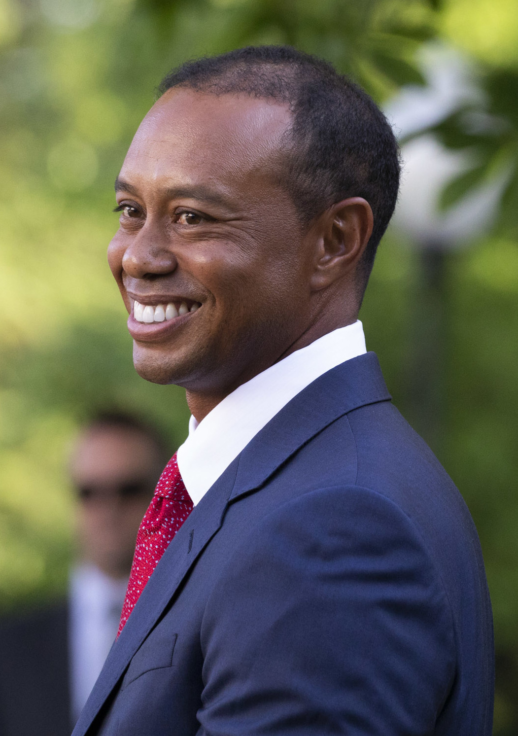 President Donald J. Trump presents the Presidential Medal of Freedom to Tiger Woods May 6, 2019, in the Rose Garden of the White House. (Official White House by Photo Joyce N. Boghosian)